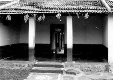 T. V. Venkatachala Sastry's house in Harohalli Village, Kanakapura, Bangalore where he was born in 1933